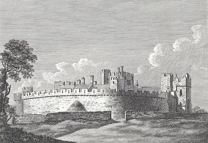 A view of St Donat's castle.